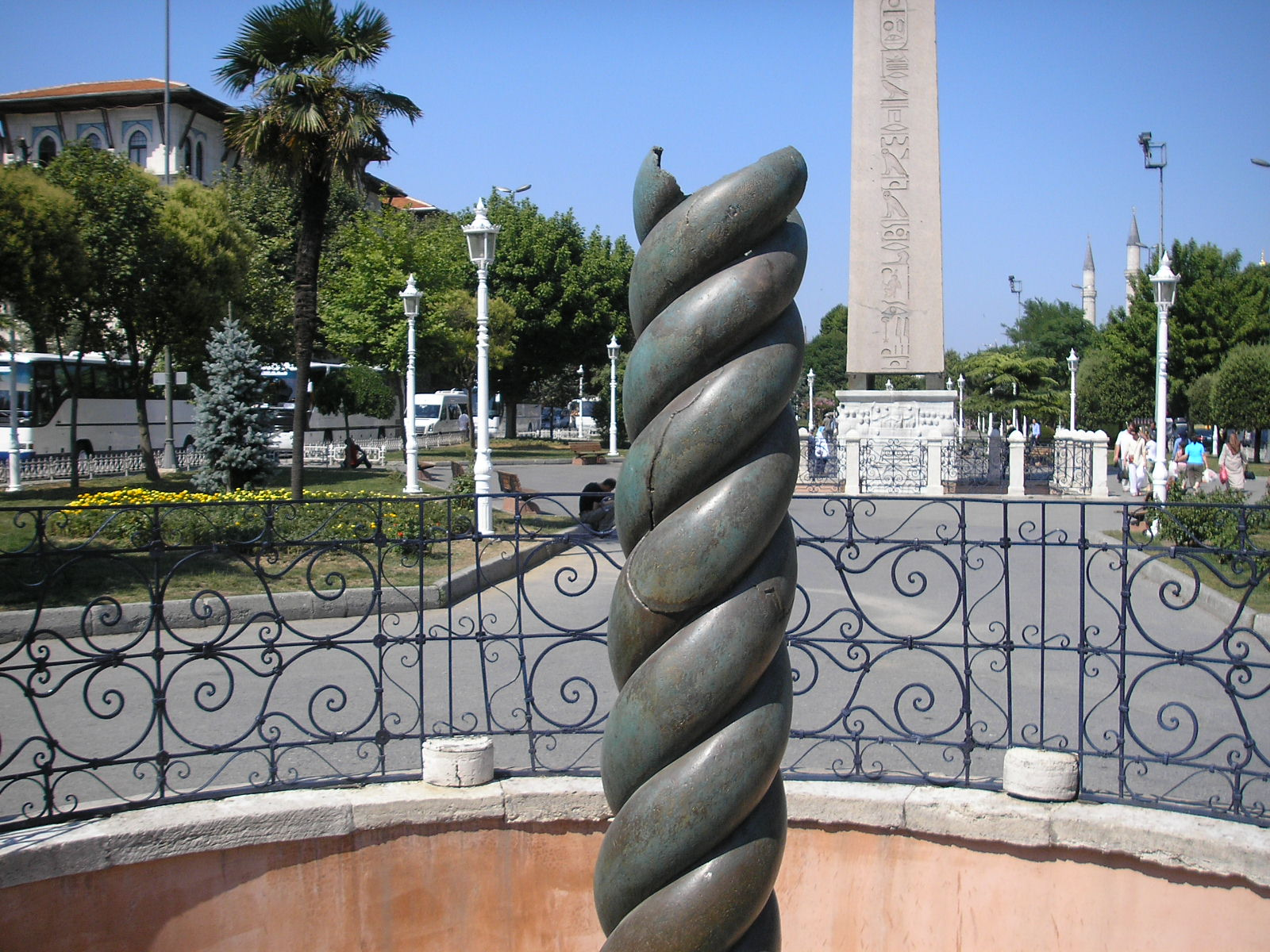 So-called "Snake column" or "Serpents column" that used to be in the centre of the Hippodrome in Constantinople. Originally it had three heads and came from Delphi, one of the heads is in the Istanbul museum today.